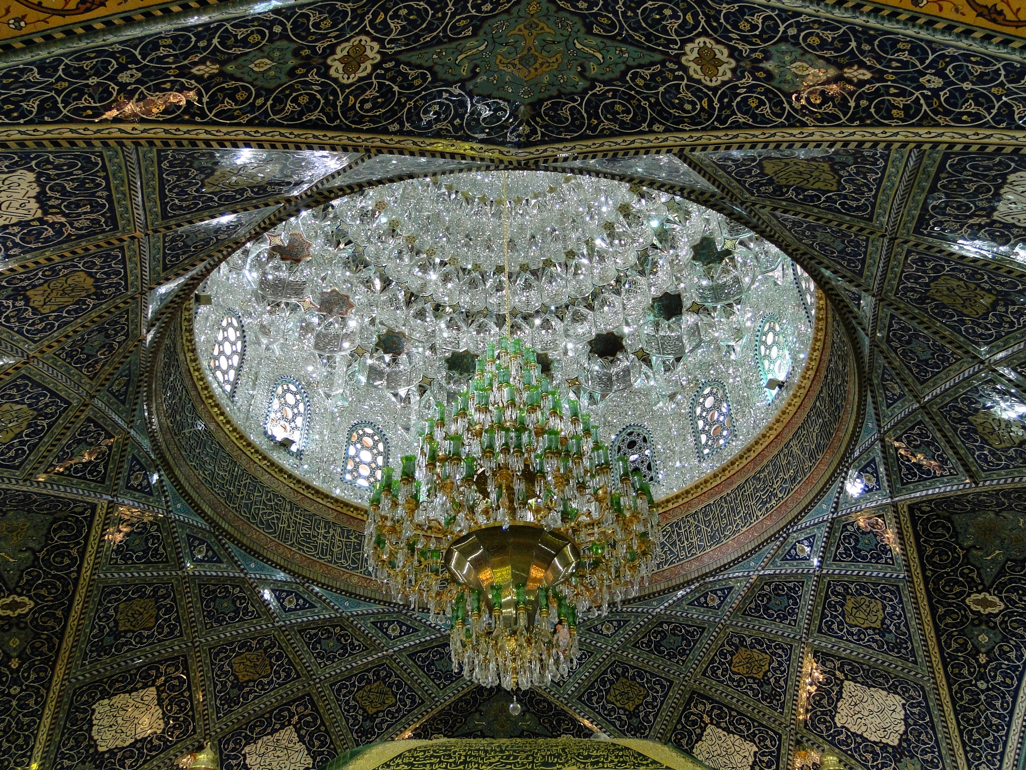 A chandelier in Sayyidah Ruqayya Mosque, Damascus, Syria